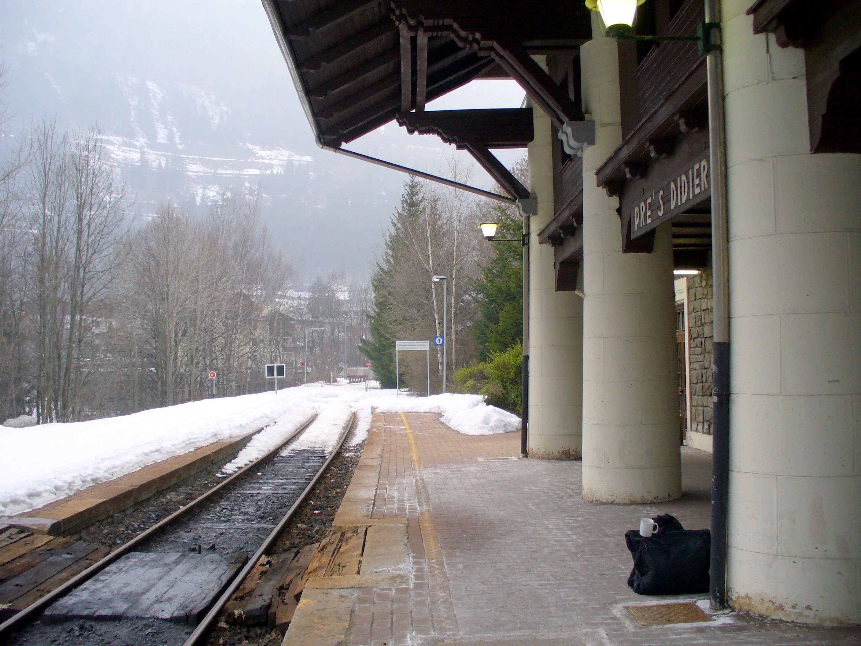 Pre-Saint-Didier train station, Val D'Aosta, Italy